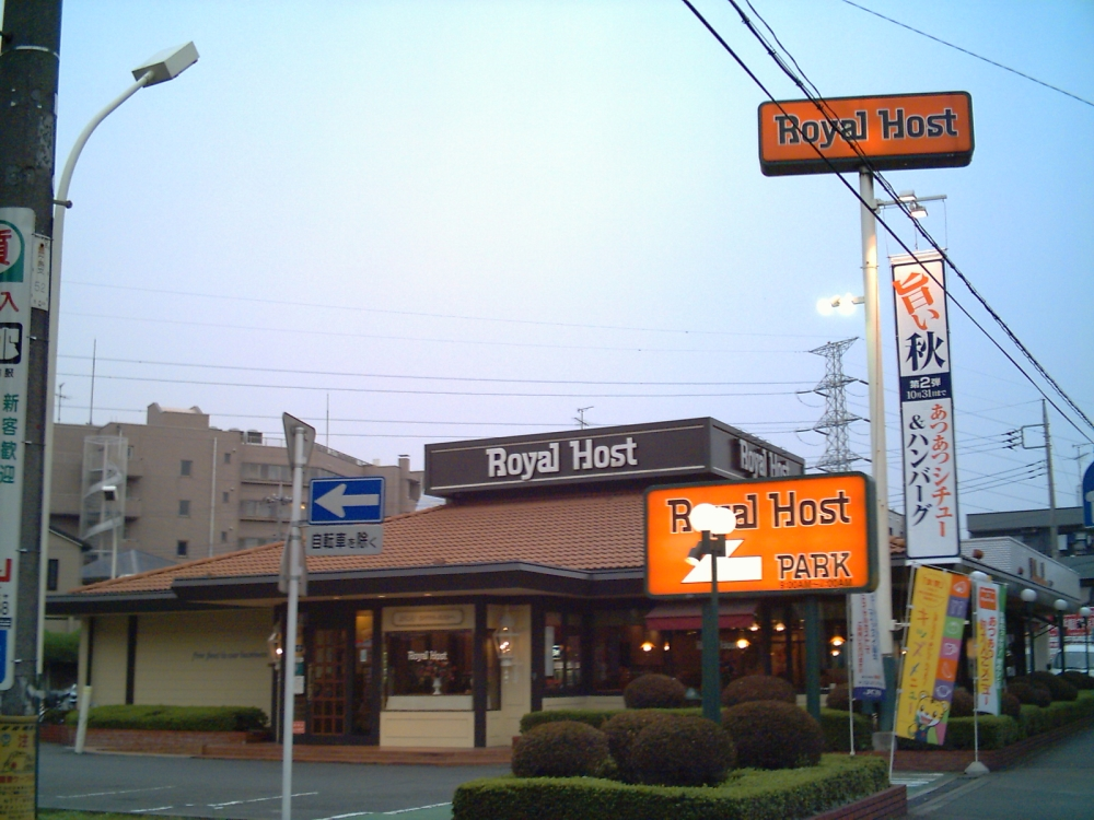 RoyalHost Restaurant in Japan photography day, 2006.11.7. photography person Tokoroten